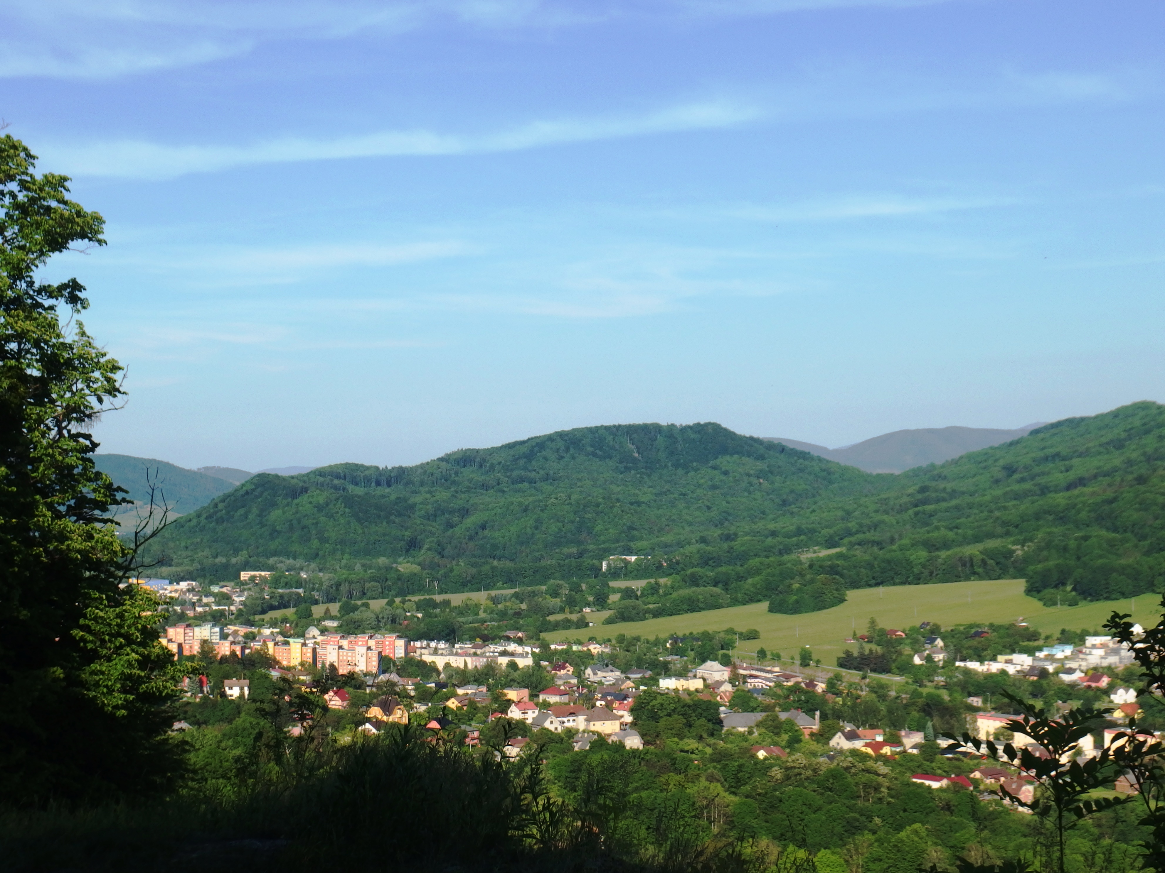 Štramberk, Nový Jičín District, Czech Republic. View from the Kotouč hill.